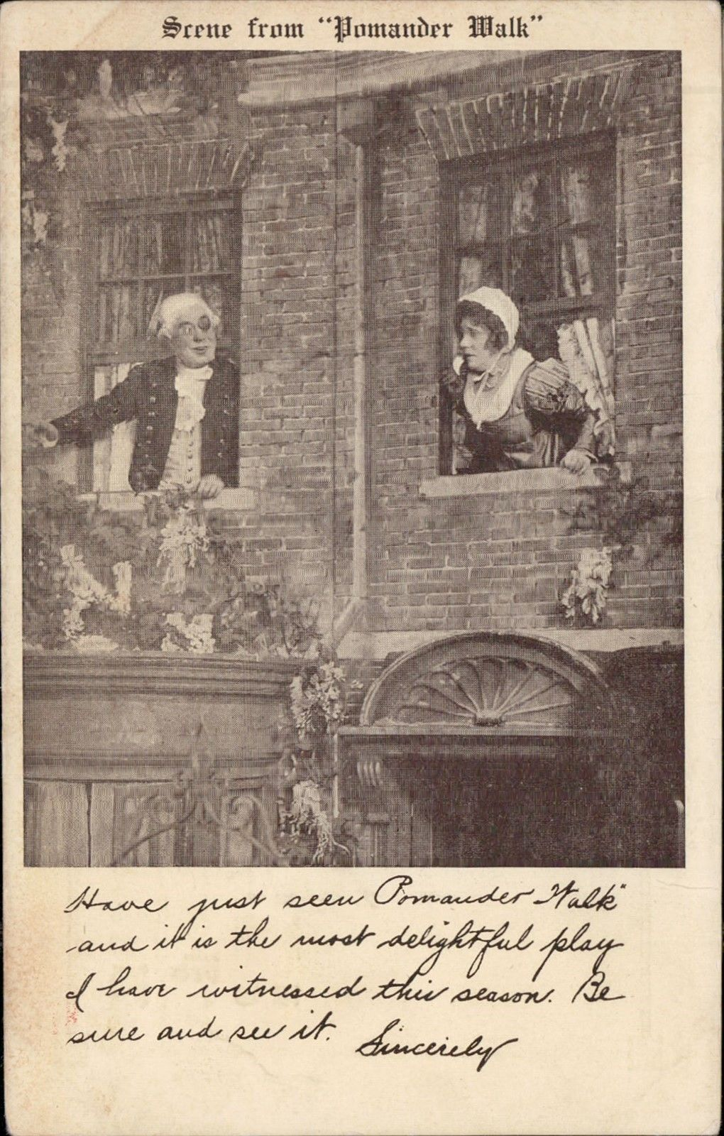 Front of a promotional postcard for the play Pomander Walk at Wallack's Theatre